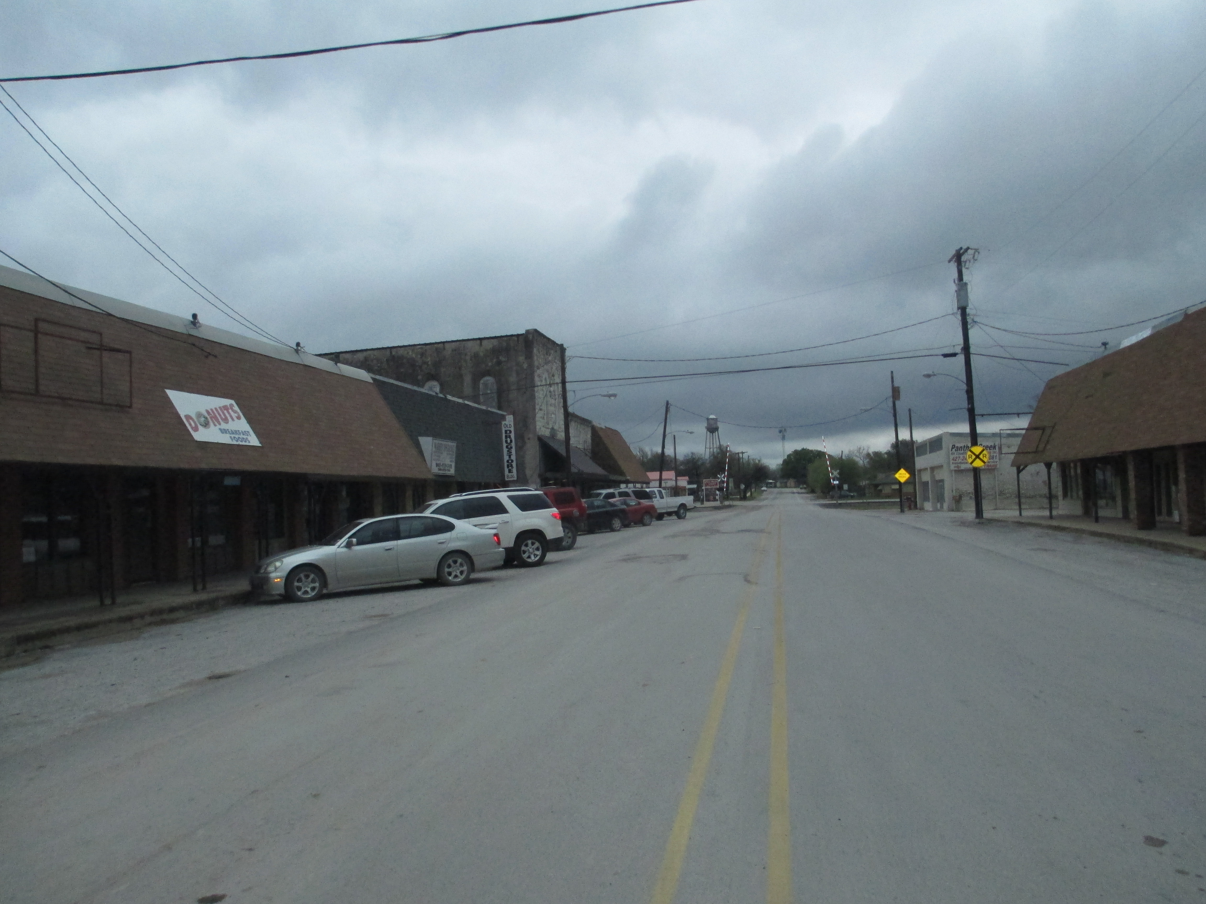 I took photo of Alvord, TX, with Canon camera, April 4, 2013. Billy Hathorn (talk) 01:32, 12 April 2013 (UTC)